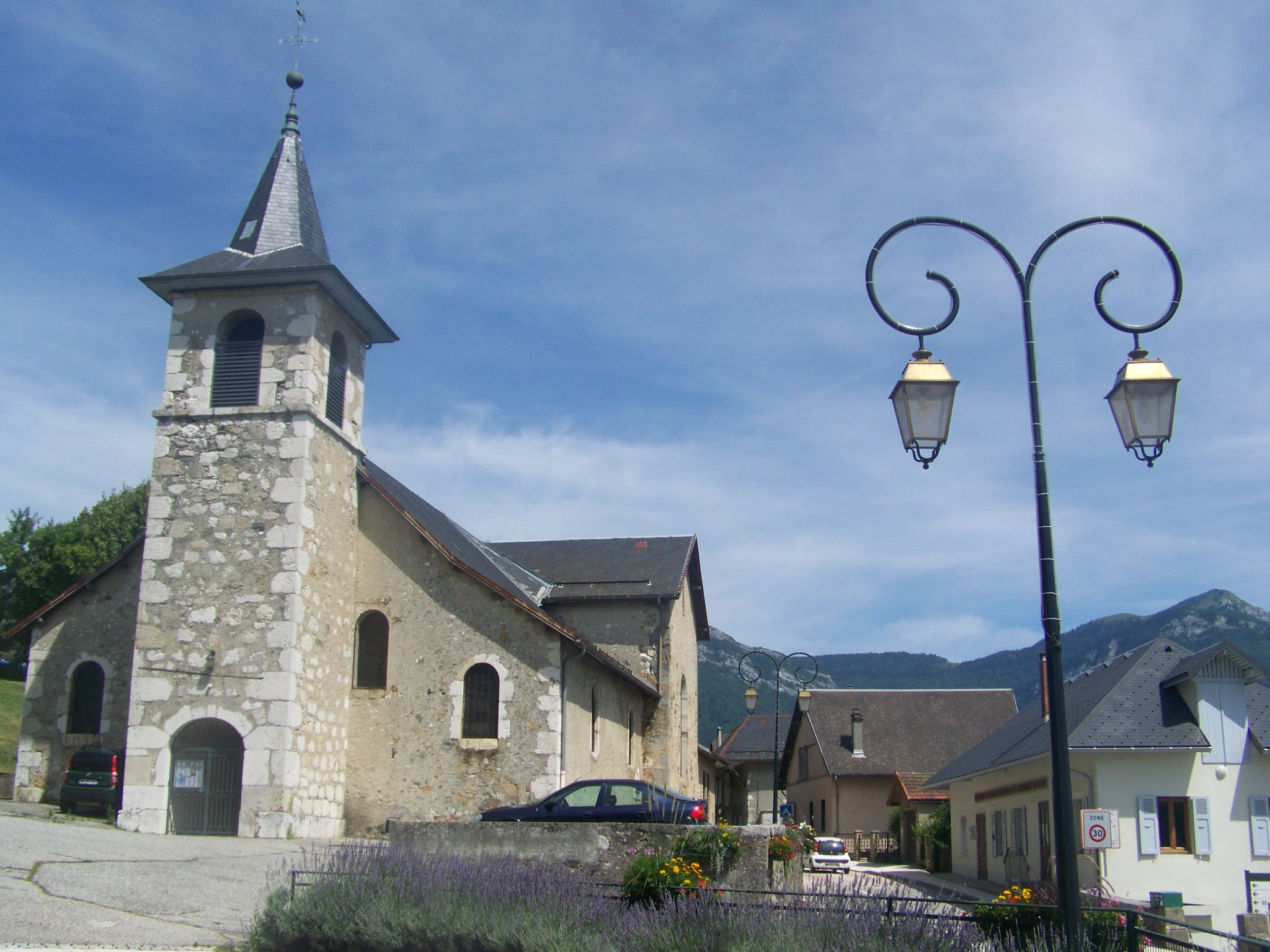 Church of St-Jean-d'Arvey village, near Chambéry in Savoie, France.